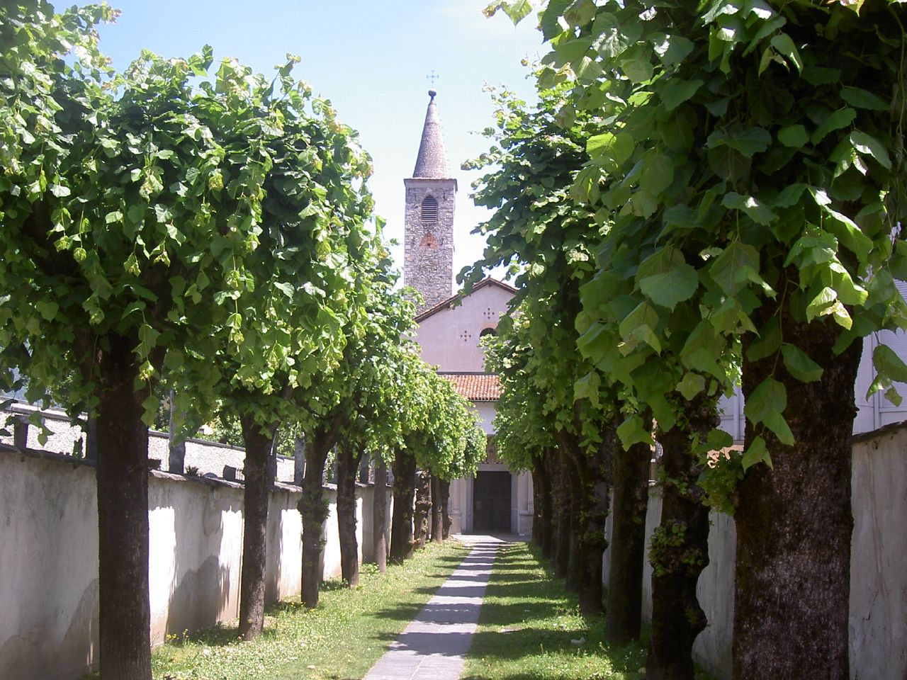 S. Maria Church in Ascona, Ticino, Switzerland